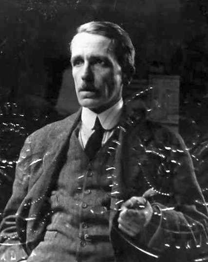 Charles Mills Sheldon was a war correspondent, artist, and book illustrator, born in the US who move to London in the last decades of the 19th century.